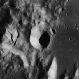 T. Mayer E crater, on the moon.